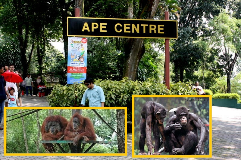 Ape Centre. home to human closest species